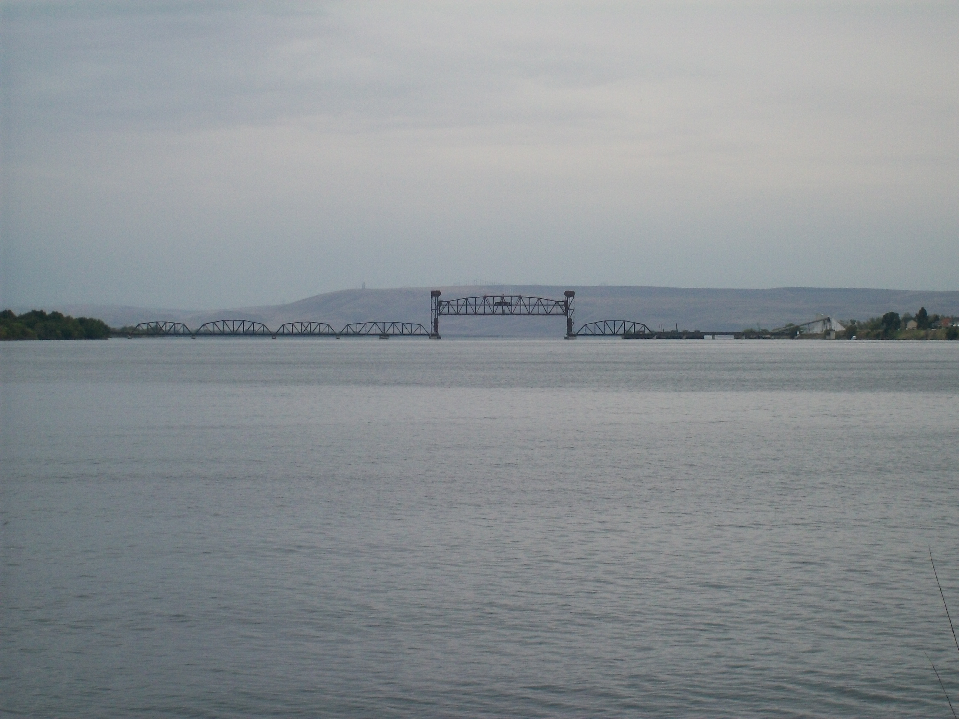 Railroad lift bridge over the Columbia River near Burbank, Washington.